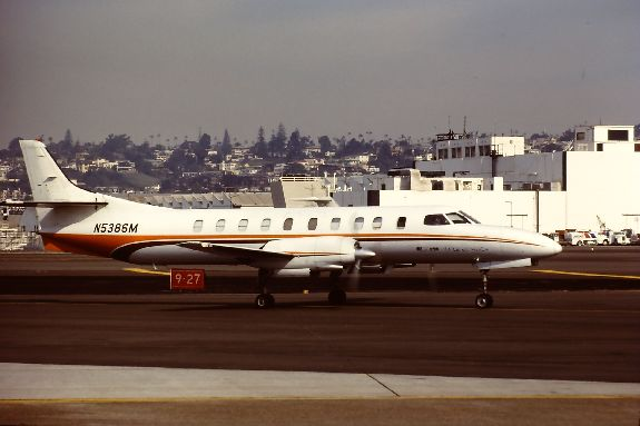 Manufacturer: Swearingen Designation: SA-226 Merlin Airline: Western States Express Serial Number: N5386M